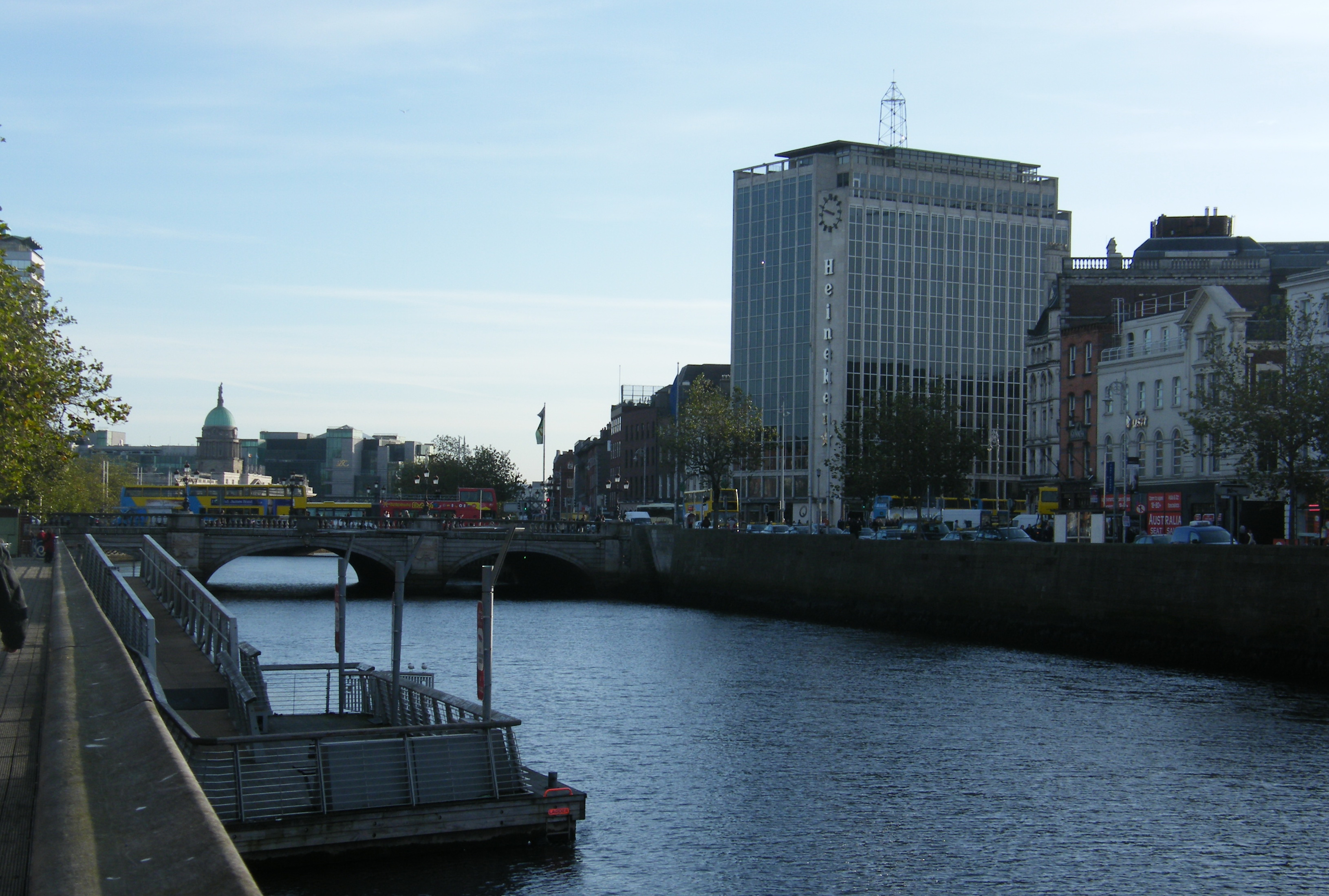 Dublin's downtown and River Liffey